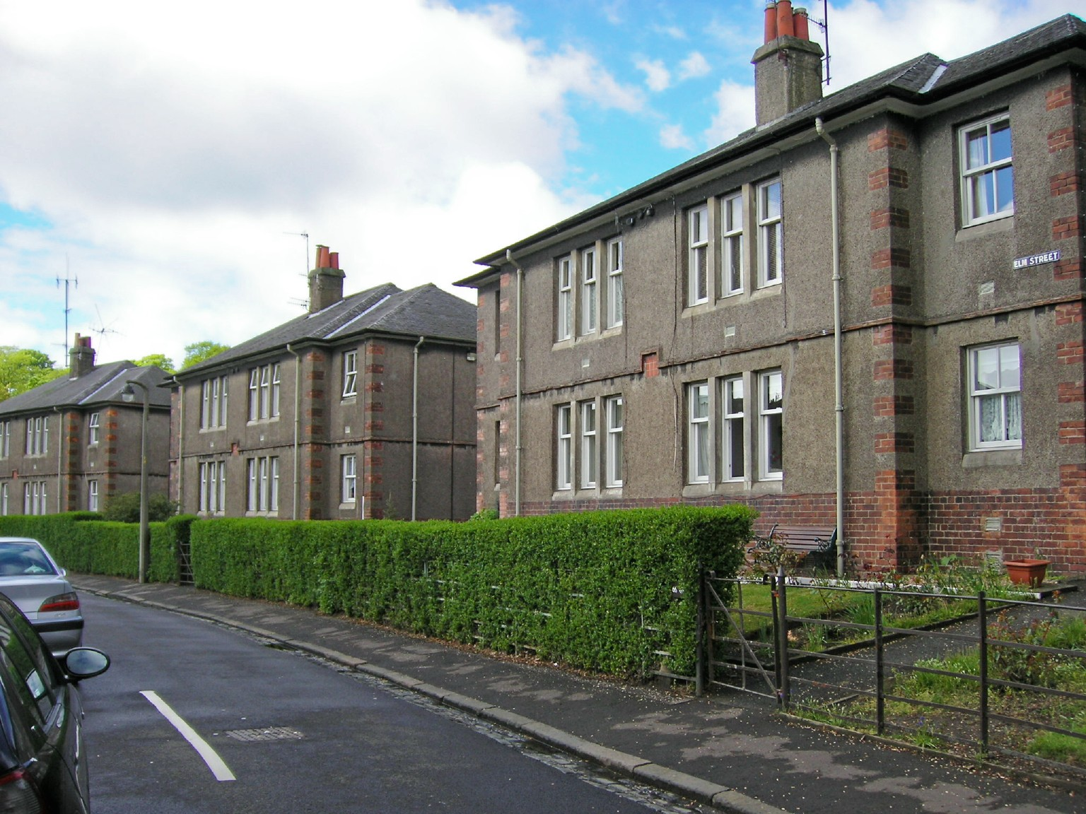 Example of typical housing of Logie housing estate